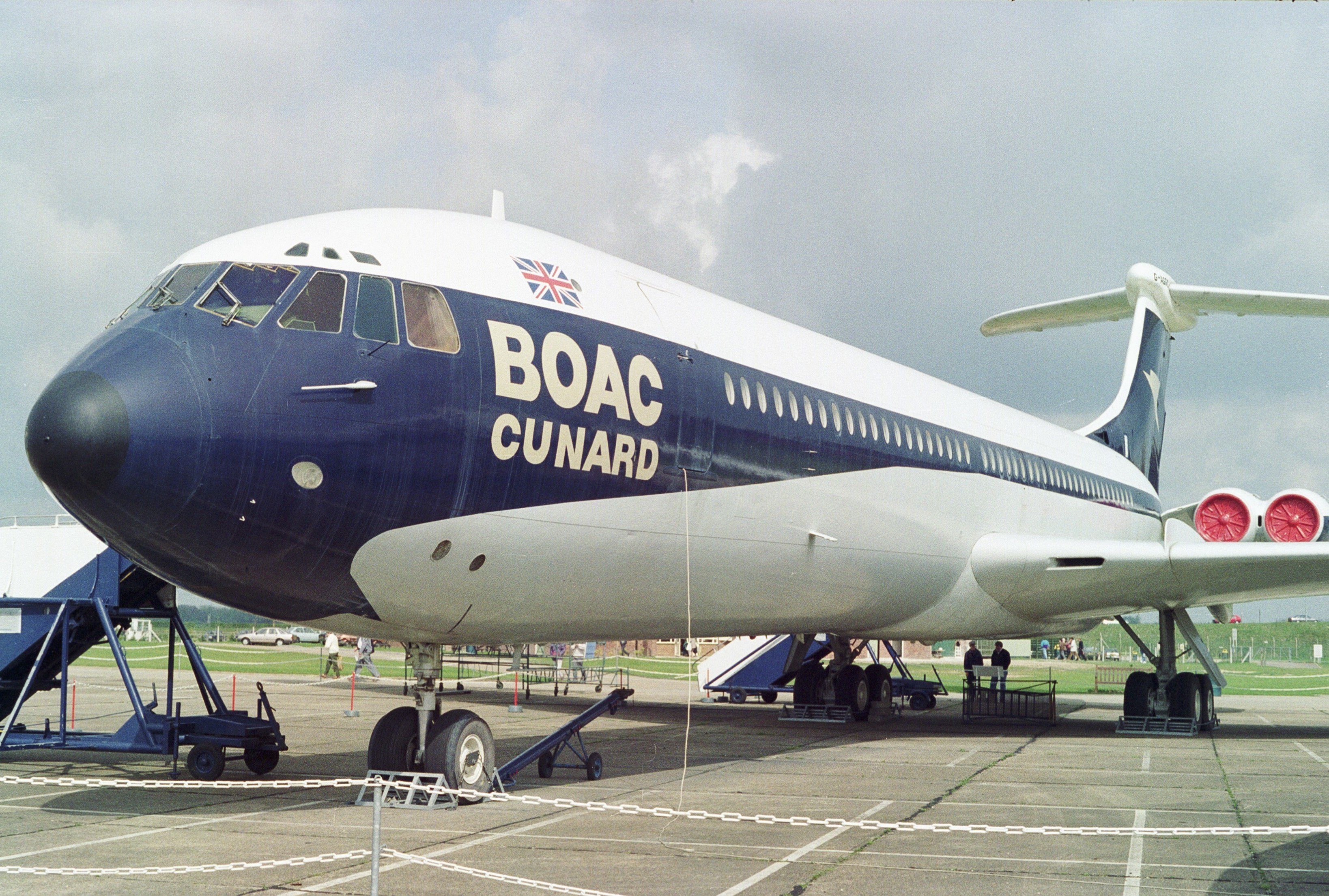 Duxford (EGSU) UK - England, April 23 1992.